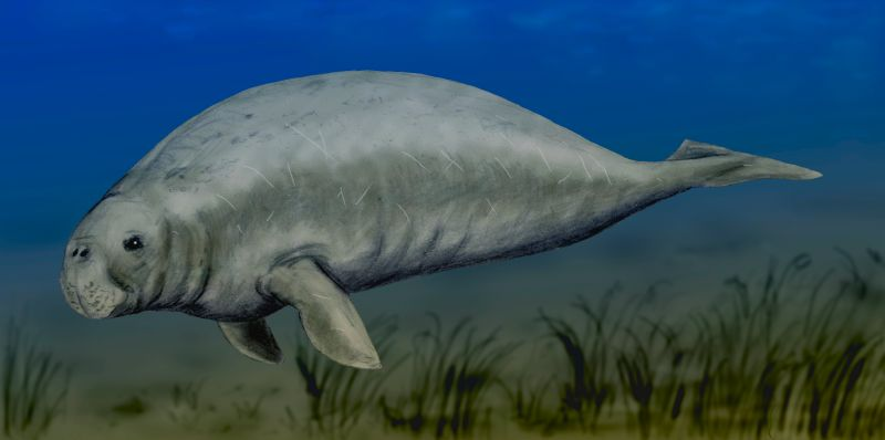 Halitherium schinzi, a sea cow (Sirenia) from the Early/Late Oligocene of Germany